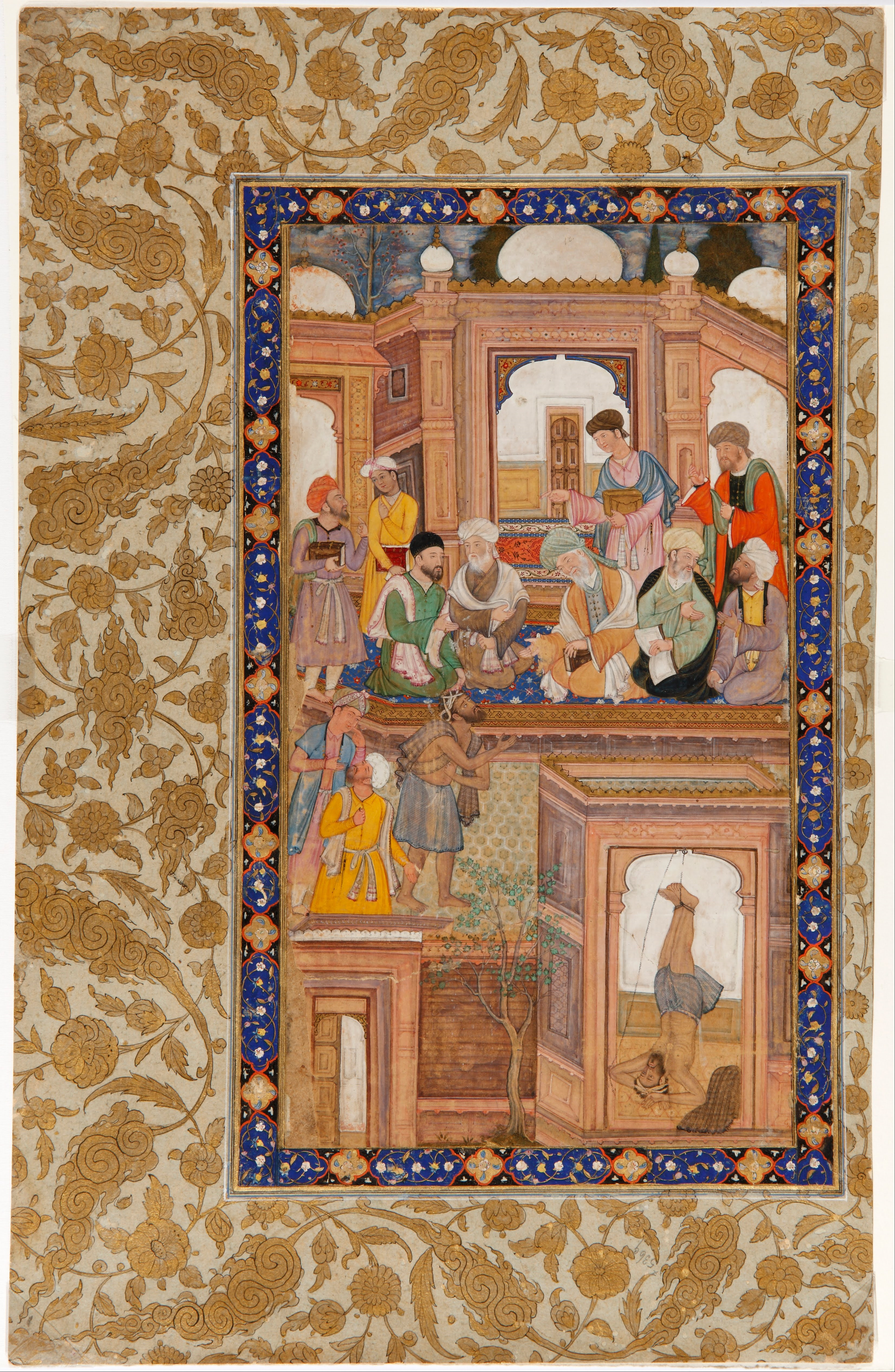 In a large room we can see a Sufis meeting in which Muslim religious -mullahs- and two Hindu ascetics are joining -sanyasi-. One of them is upside down, suspended from his feet by a rope, meditating in the foreground of the scene. Another ascetic talks with Muslim mystics, who have closed books in their hands. The scene may be related to an episode from the life of the mystic Zul Nun Misri (d. 890), who agreeded with Sufism after a meeting with an ascetic suspended from the feet of a tree. The border belongs to a copy of another manuscript, the Farhang-e Jahangir.